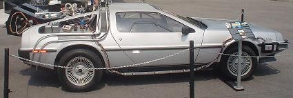 De Lorean DMC-12 Made in 2004. Self made picture.